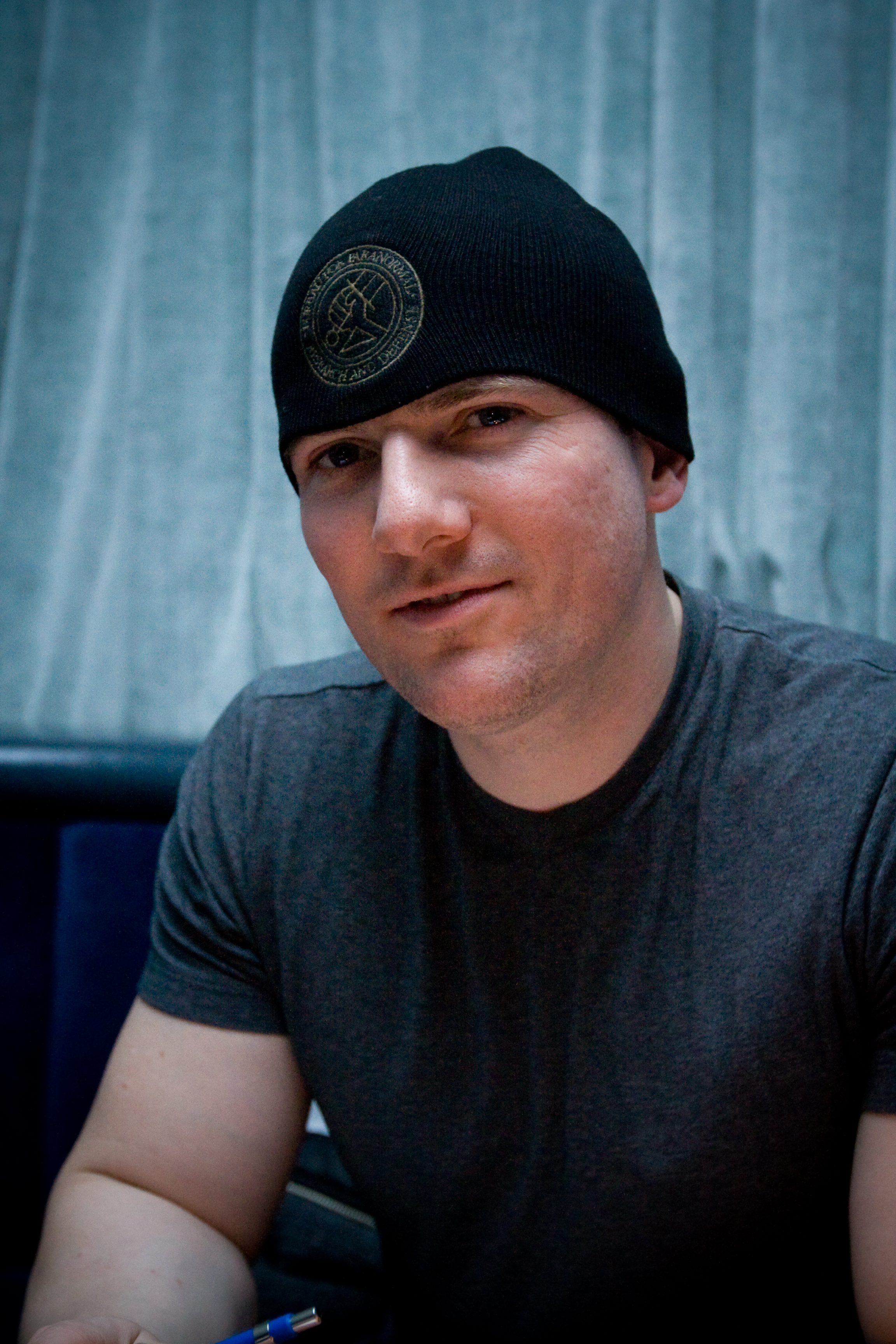 American artist and writer David W. Mack at a party in 2009 benefitting the Comic Book Legal Defense Fund.